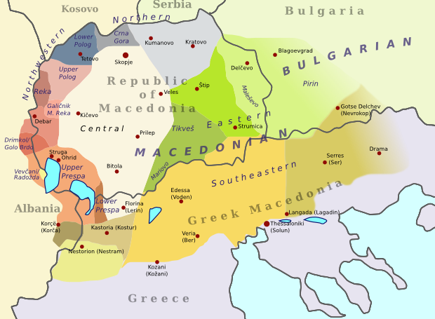 Map of dialect divisions in Macedonian and related Slavic varieties of geographic Macedonia.